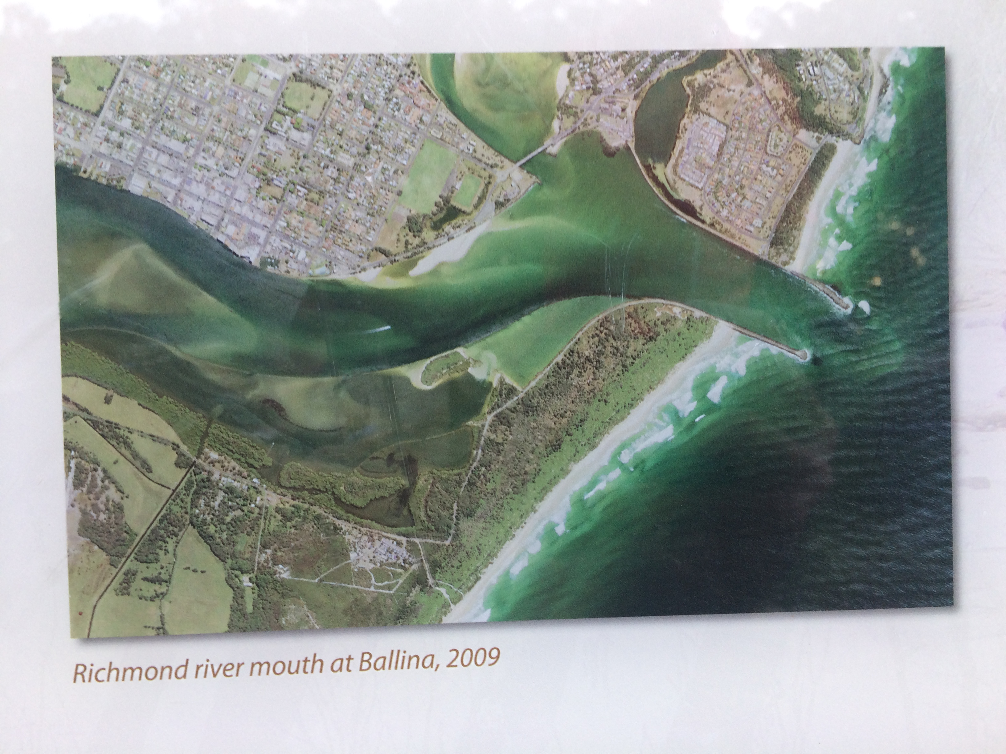 Richmond River 2009